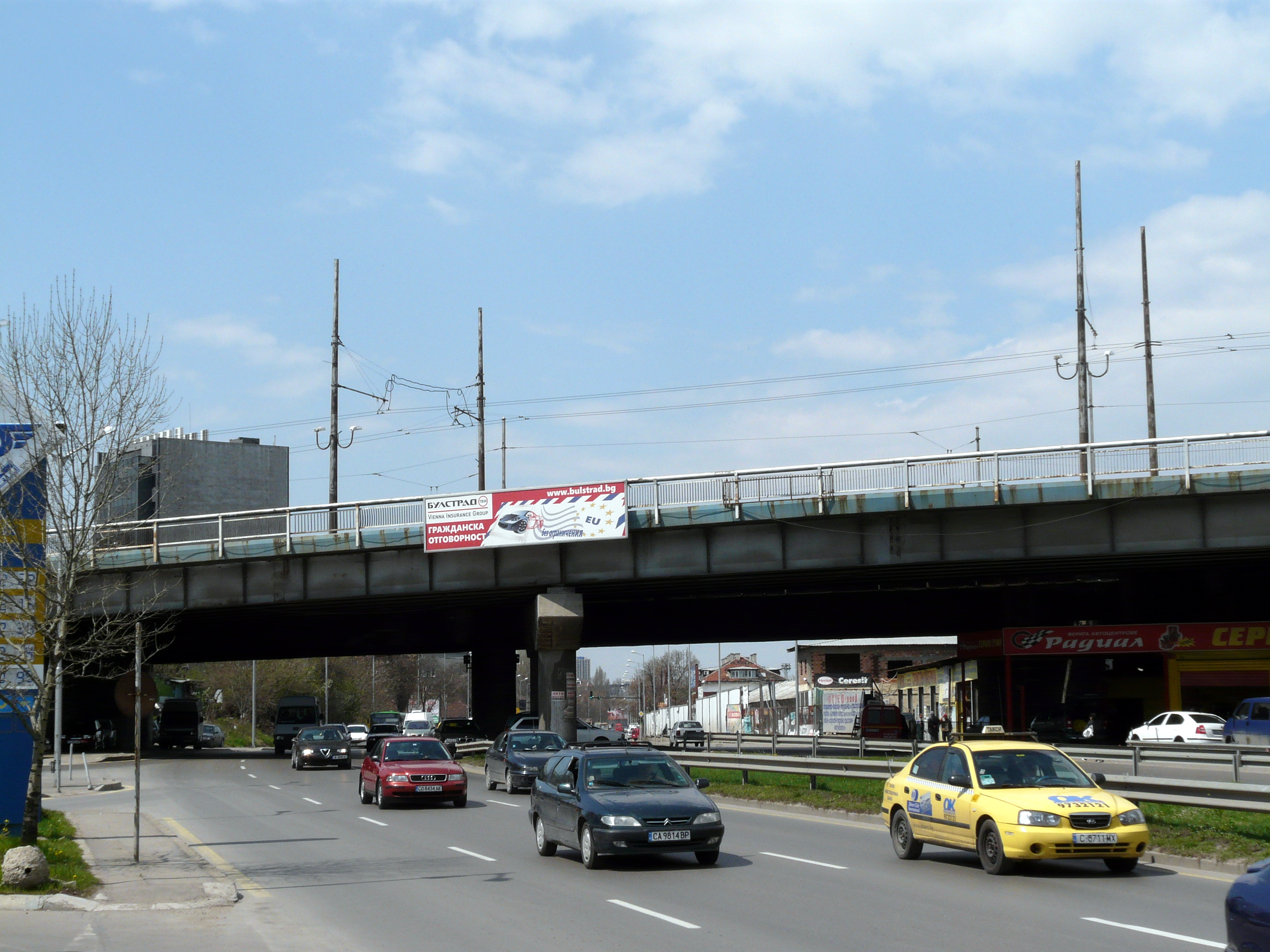 The Chavdar bridge in Sofia